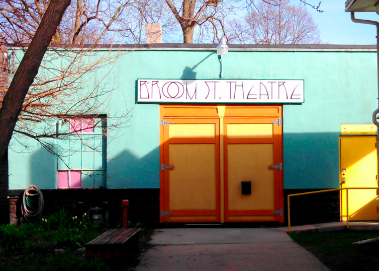 Exterior of Broom Street Theater, Madison, Wisconsin